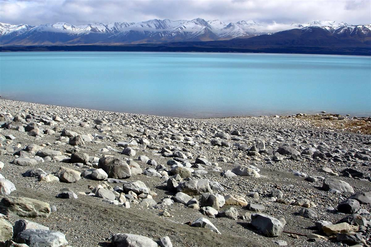 Lake Pukaki in September 2005